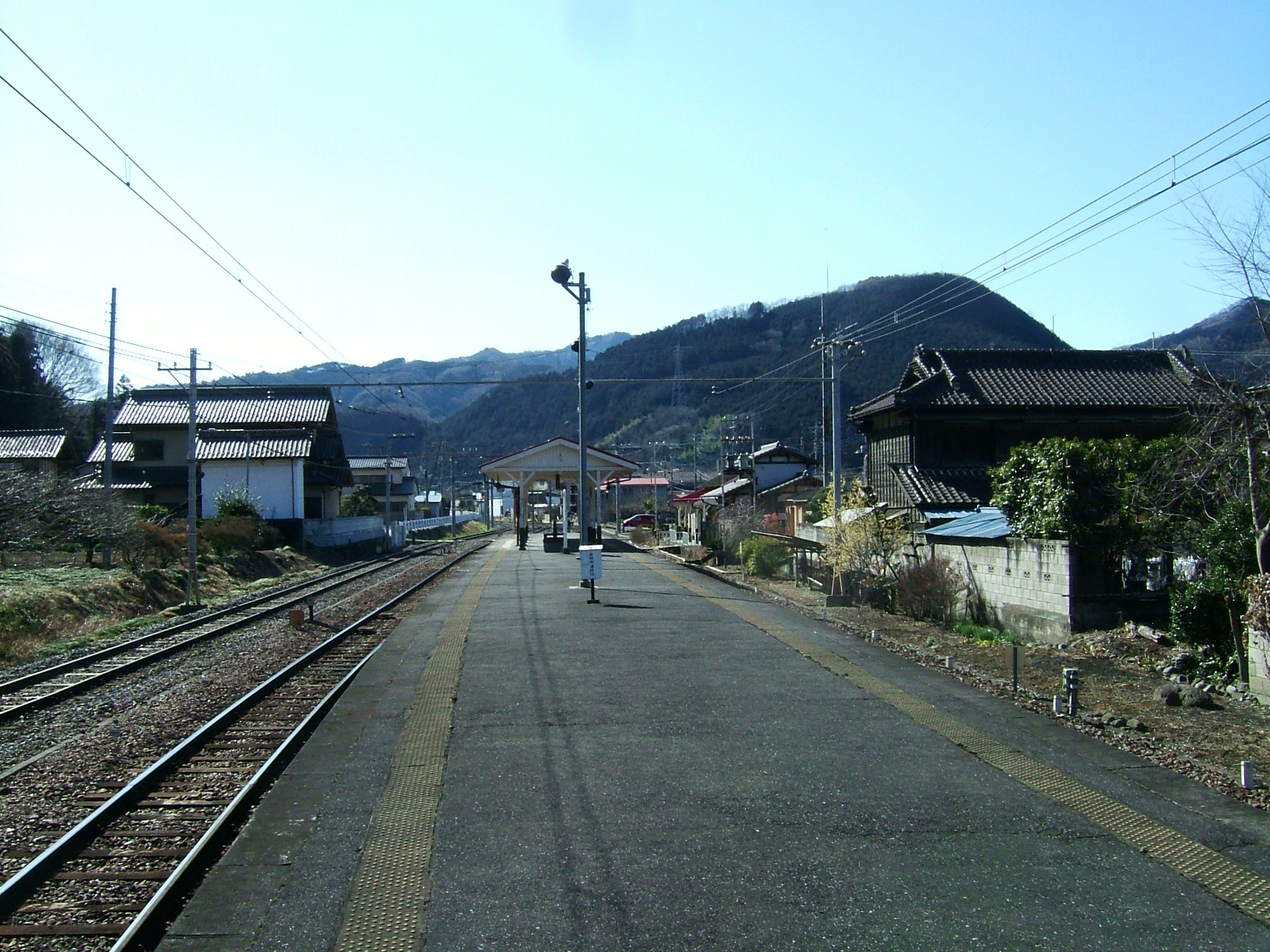 The platform at Hagure Station on the Chichibu Main Line